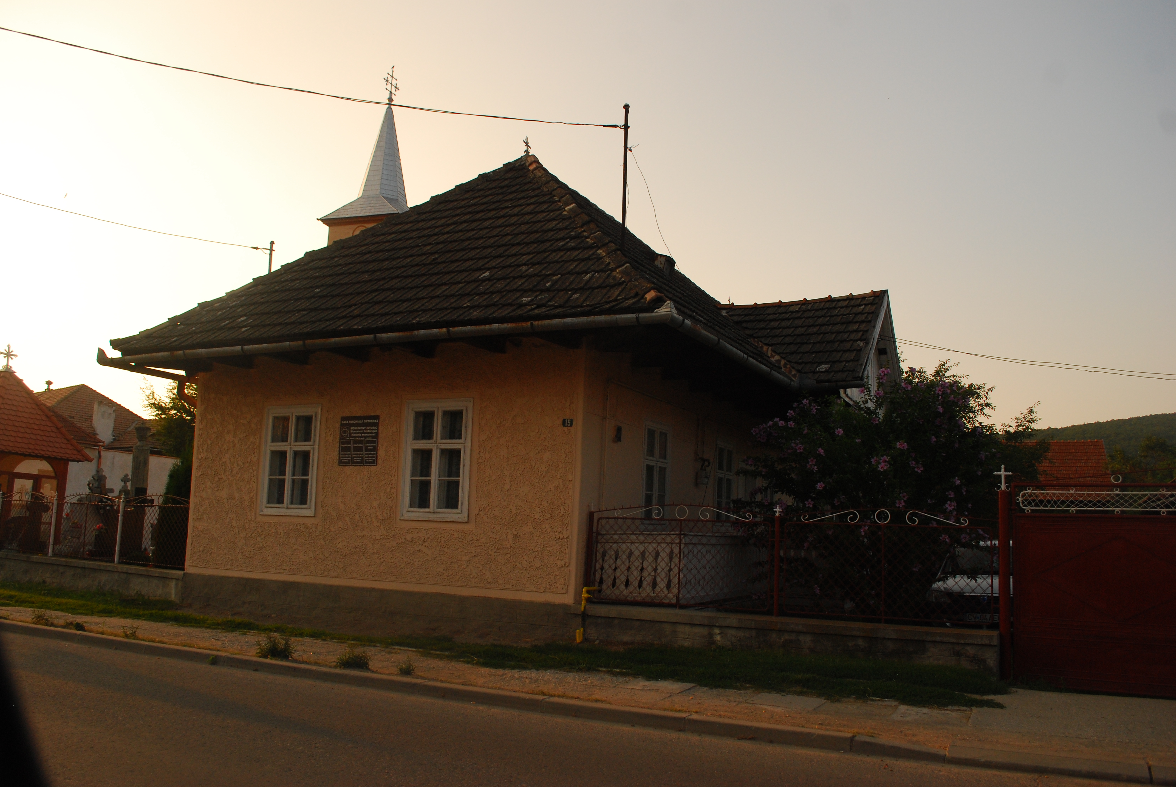 Orthodox parish house in Covasna, Covasna County, Romania